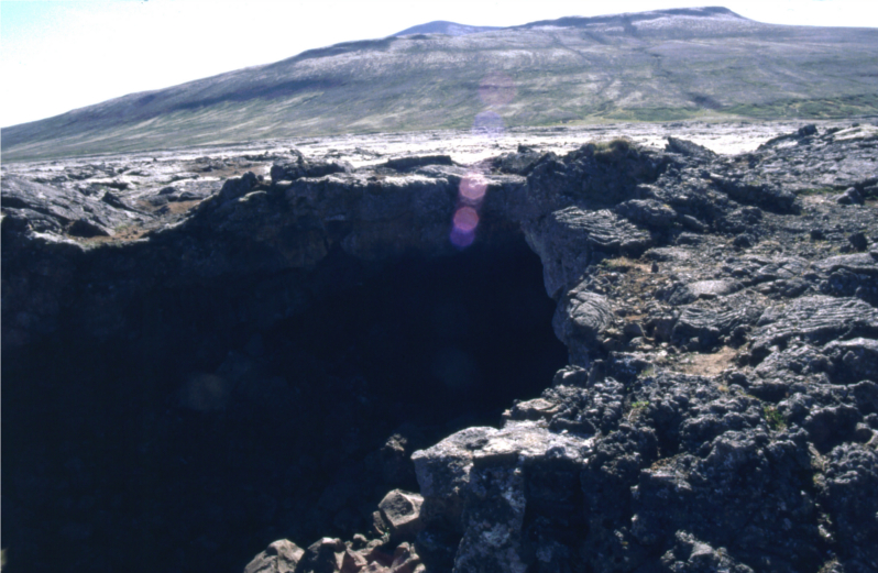 Entrance to the Surtshellir lava tube, Hallmundarhraun, Iceland; the mountain in the background is Strútur.